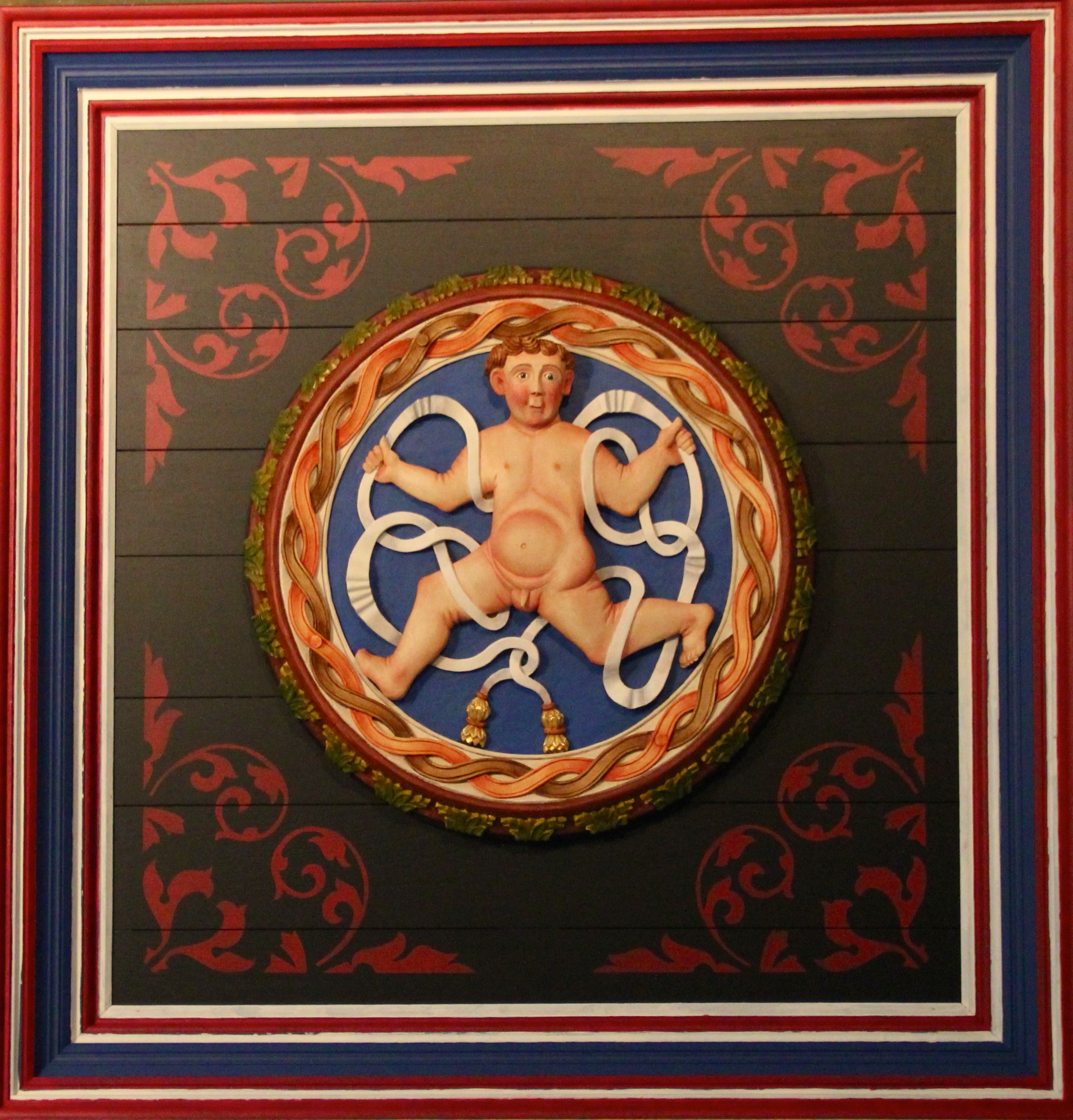 A Putto in Stirling castle, showing a naked child from the Renaissance era representing playfulness, love and heavenly blessing. One of 37 replica "Stirling Heads" on the ceiling of the King's Inner Hall in Stirling Castle.